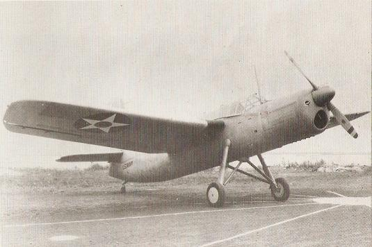 Vought XSO2U-1 scout-observation aircraft prototype on wheeled landing gear.